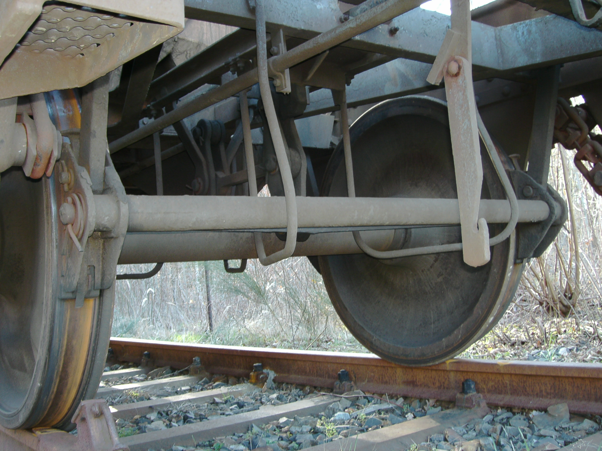 ITL railways Class Fccs hopper wagon - axle and brake rods.